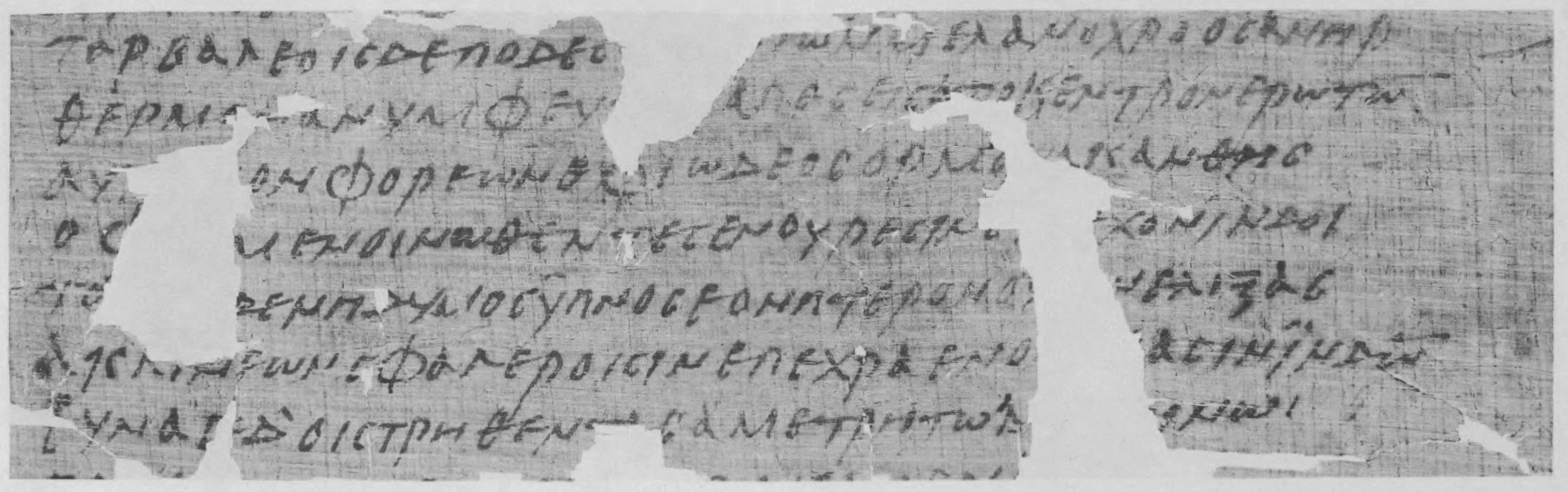 P.Berol. inv. 10567: a six or seventh c. papyrus of Nonnus' Dionysiaca